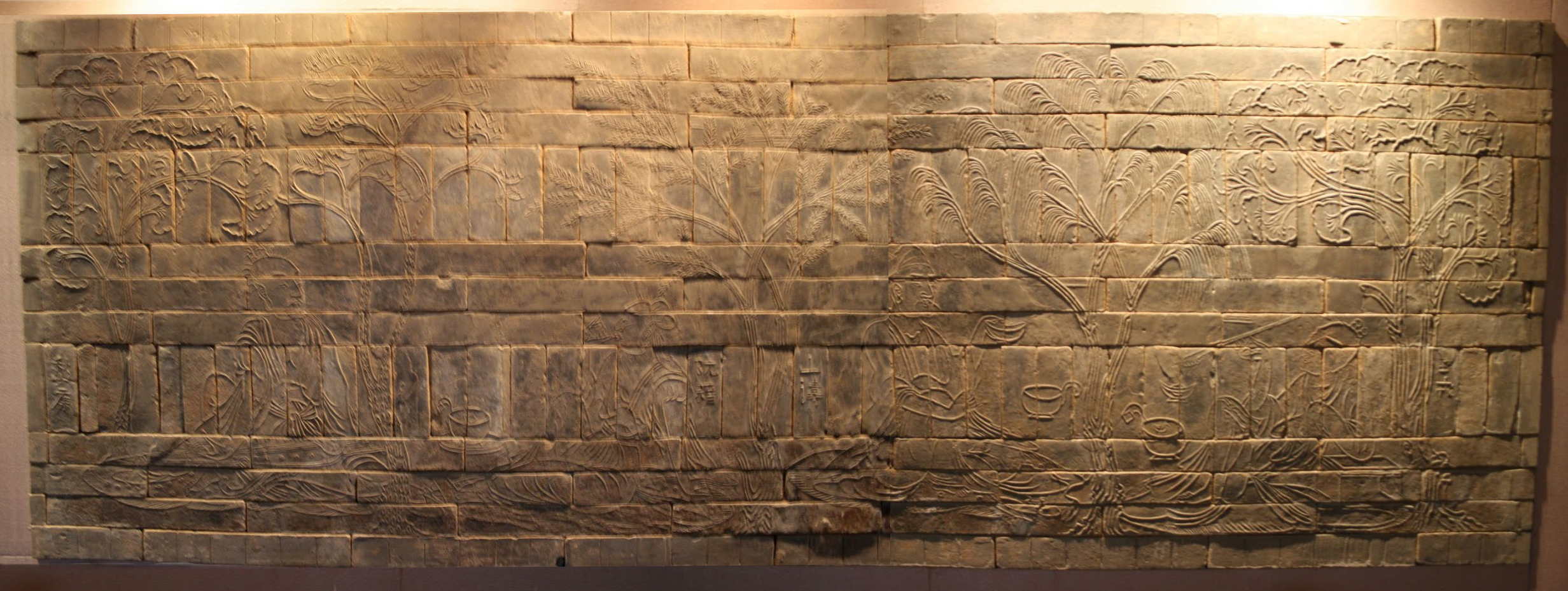 Molded-brick mural, identified as the "Seven Sages of the Bamboo Grove and Rong Qiqi", one of two walls apart of the coffin found in a tomb of the capital region of the Southern dynasties (5th-6th. c.), second half of the fifth century, at Xishanqiao, near Nanjing. 88 x 240 cm. Nanjing Museum. This part of the murals may reflect a composition of the famous Lu Tanwei, considered as the single greatest painter of all times by the chinese critic Xi He (act. 500-536) : ref. from China : Dawn of a Golden Age, 200-750 AD, The Metropolitan Museum of Art, Yale University Press 2004. We can recognize Ji Kang (223-262), on the left, under a gingko tree.